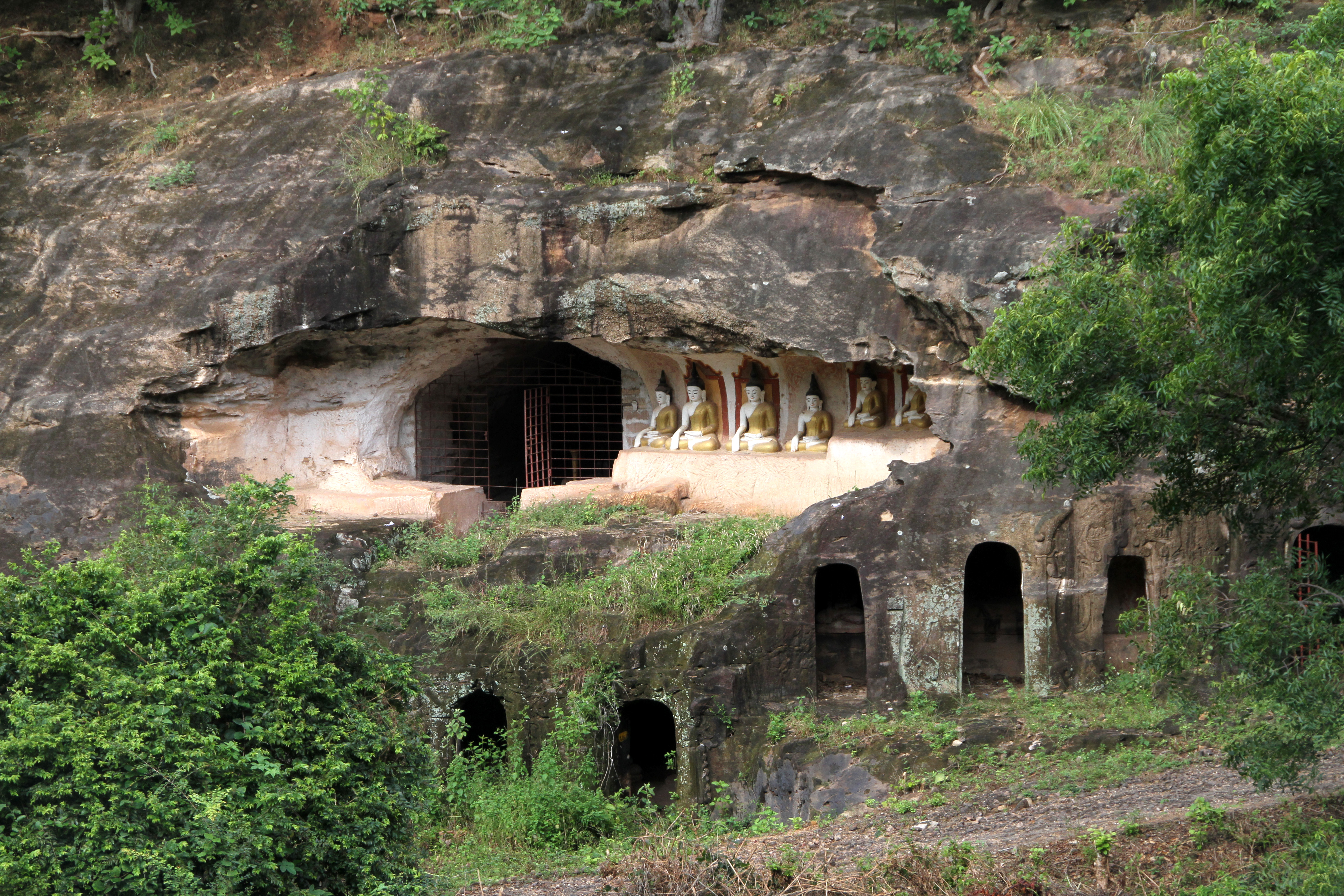 Hpo Win caves in Monywa in Myanmar